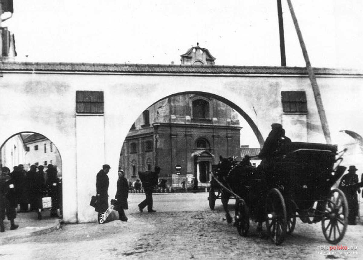 Gate to the Ghetto in Radom, Poland. Wałowa St view